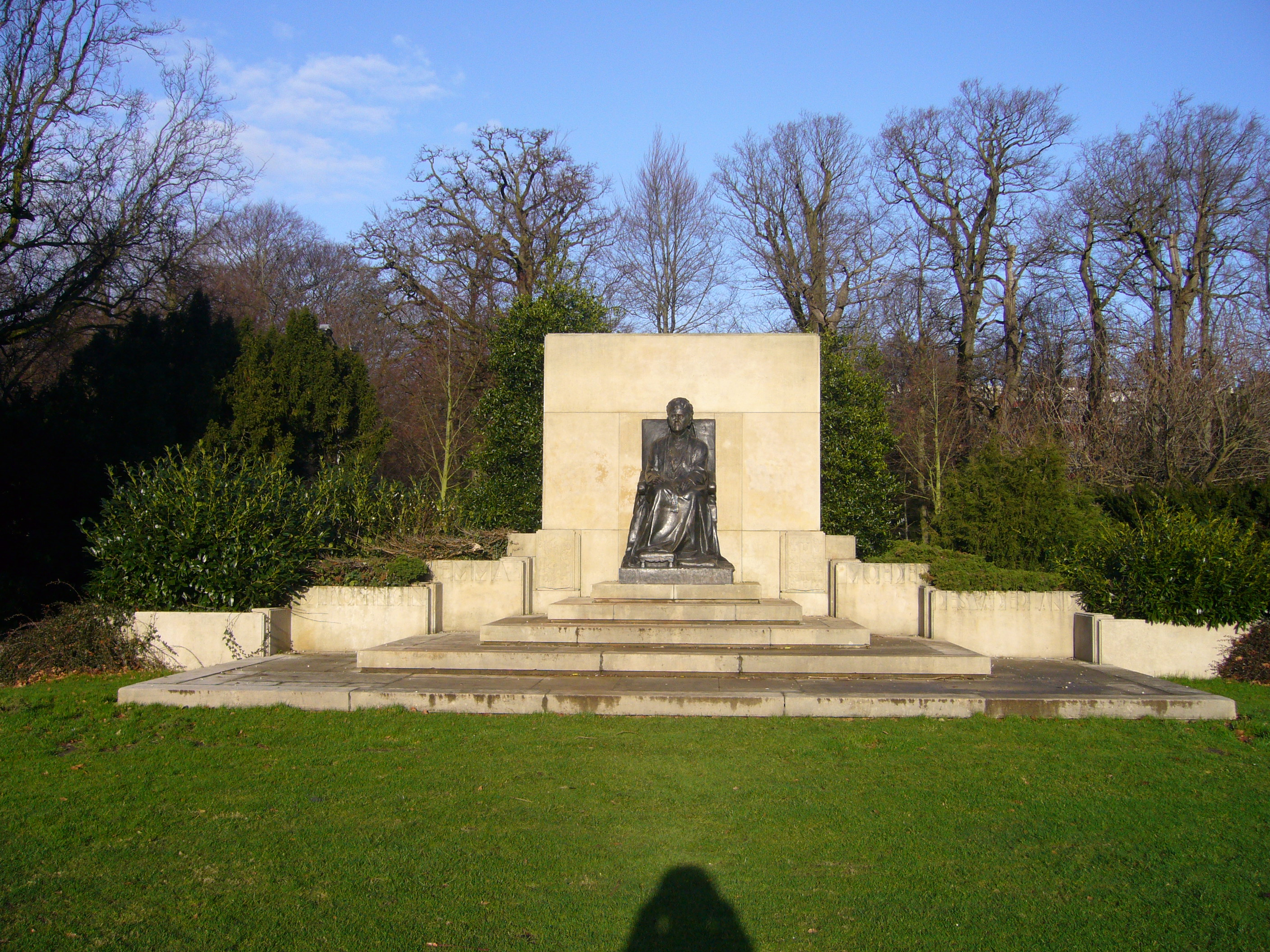 Queen Emma of the Netherlands, made by Toon Dupuis (1877-1937)